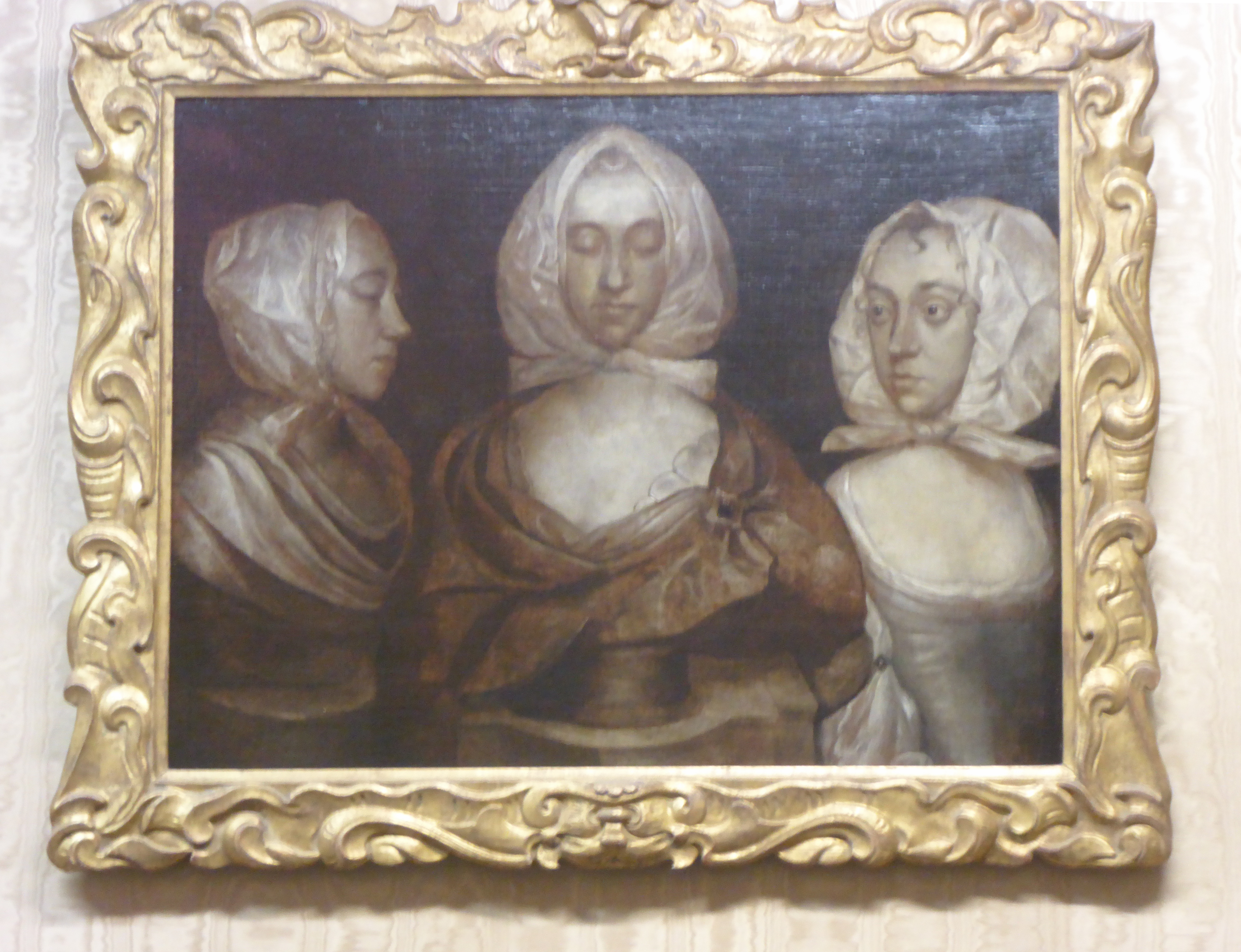 Triple Portrait of Mary Done by William Dobson, 1611-46, painted 1635-38 and one of his earliest surviving works. Mary Done, 1604-90, was the second daughter of Sir John and Lady Done. In 1636 she married John Crew MP.